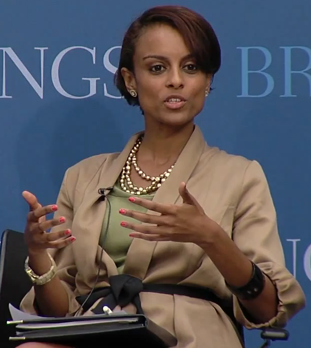 Eritrean social activist and international lawyer Semhar Araia speaking on the Somalia peace process at the Brookings Institution in Washington, D.C..